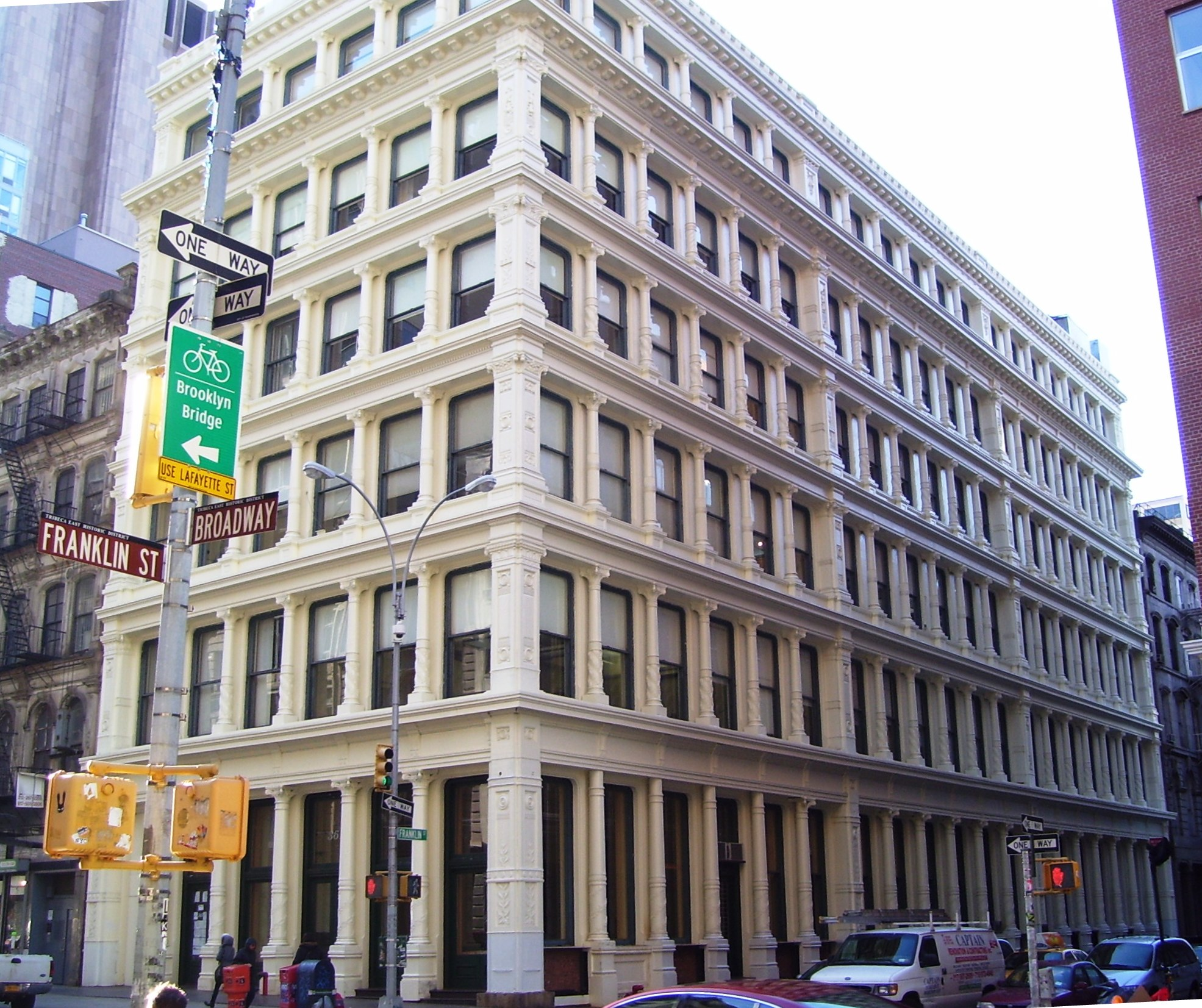 361 Broadway at the corner of Franklin Street in the Tribeca neighborhood of Manhattan, New York City, known as the James White Bulding, was built in 1881-82 and was designed by W. Wheeler Smith in the Italianate style. It once housed the offices of Scientific American, but it was primarily used in connection with the textile trade. The building was designated a New York City landmark on July 27, 1982 and was added to the National Register of Historic Places on September 15, 1983. (Source: "NYCLPC Designation Report")